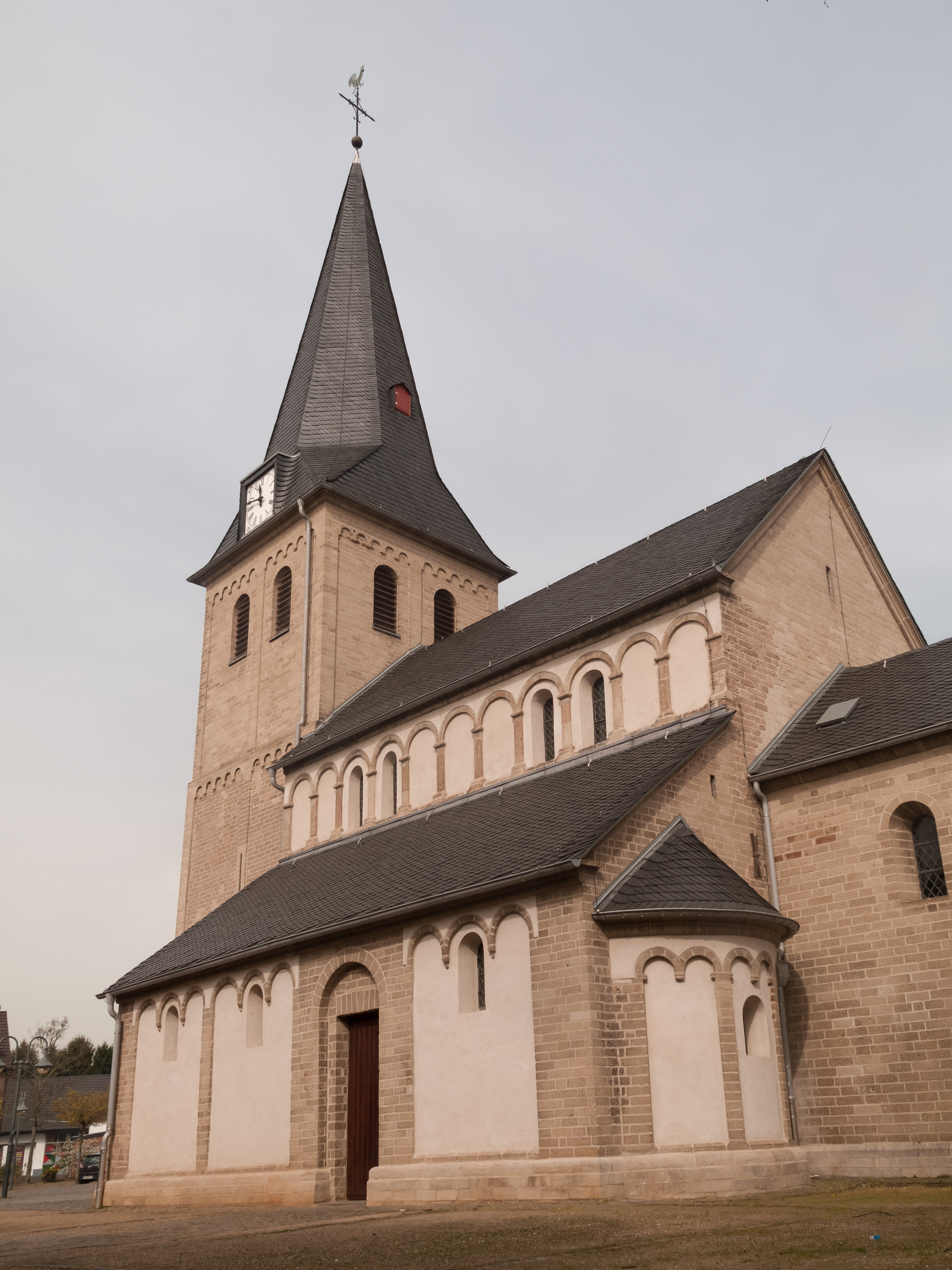 Kaarst, church: die Alte Pfarrkirche Sankt Martinus This is a photograph of an architectural monument.